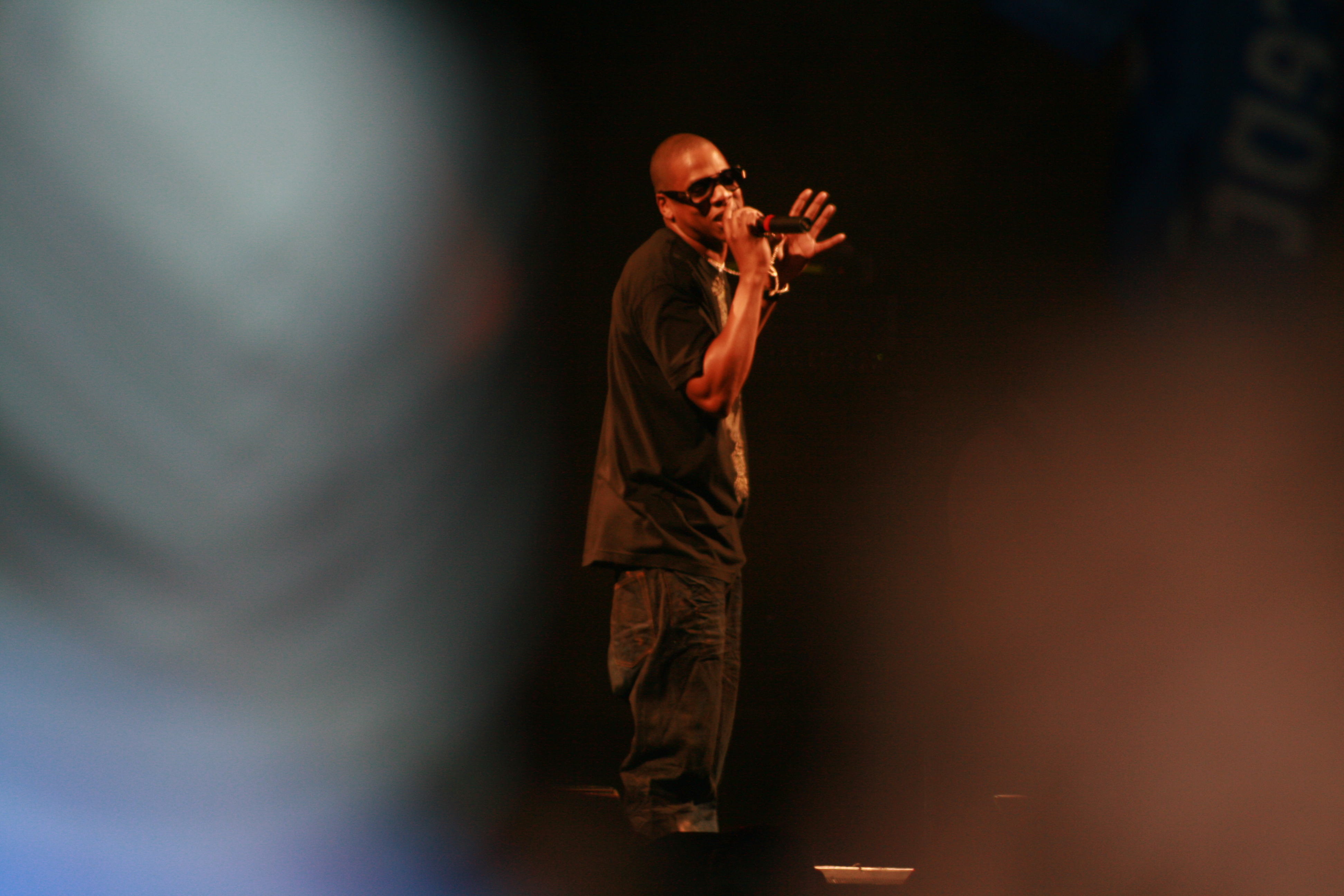 Jay-Z at Glastonbury Festival 2008